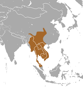 Southeast Asian Shrew (Crocidura fuliginosa) range